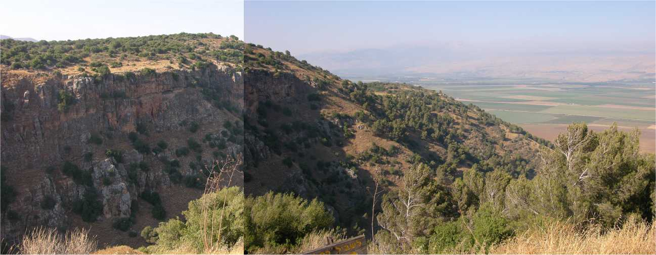 Lookout from the Ramot Heights down to the Hula valley, direction to Koach junction